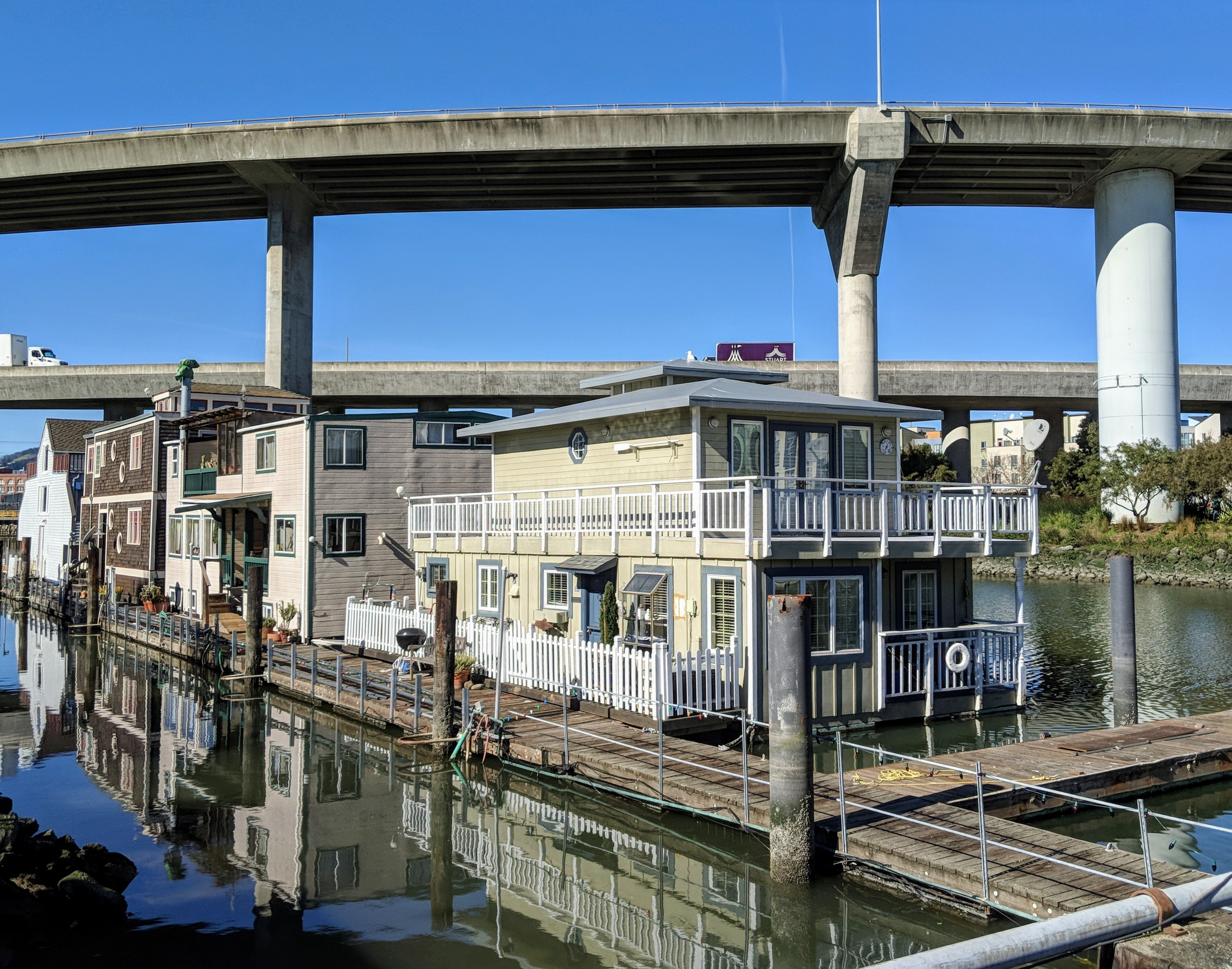 Houseboats on Mission Creek in San Francisco, with freeway access ramps above. Photo by Jim Heaphy.